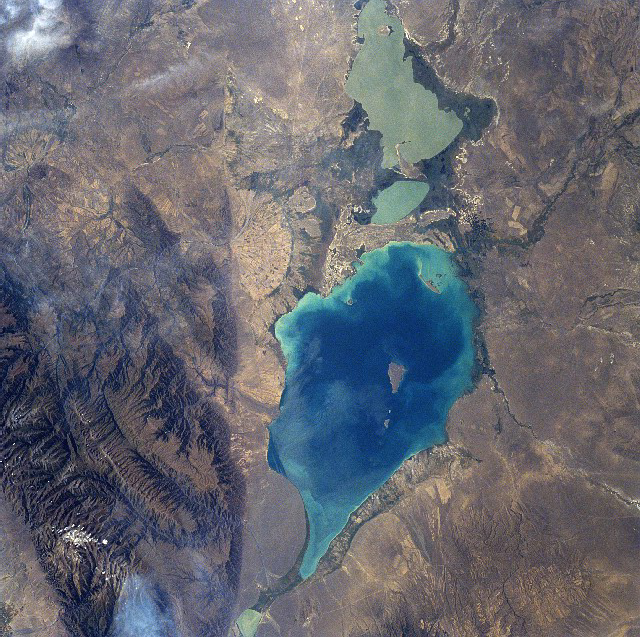 Lake Alakol from space